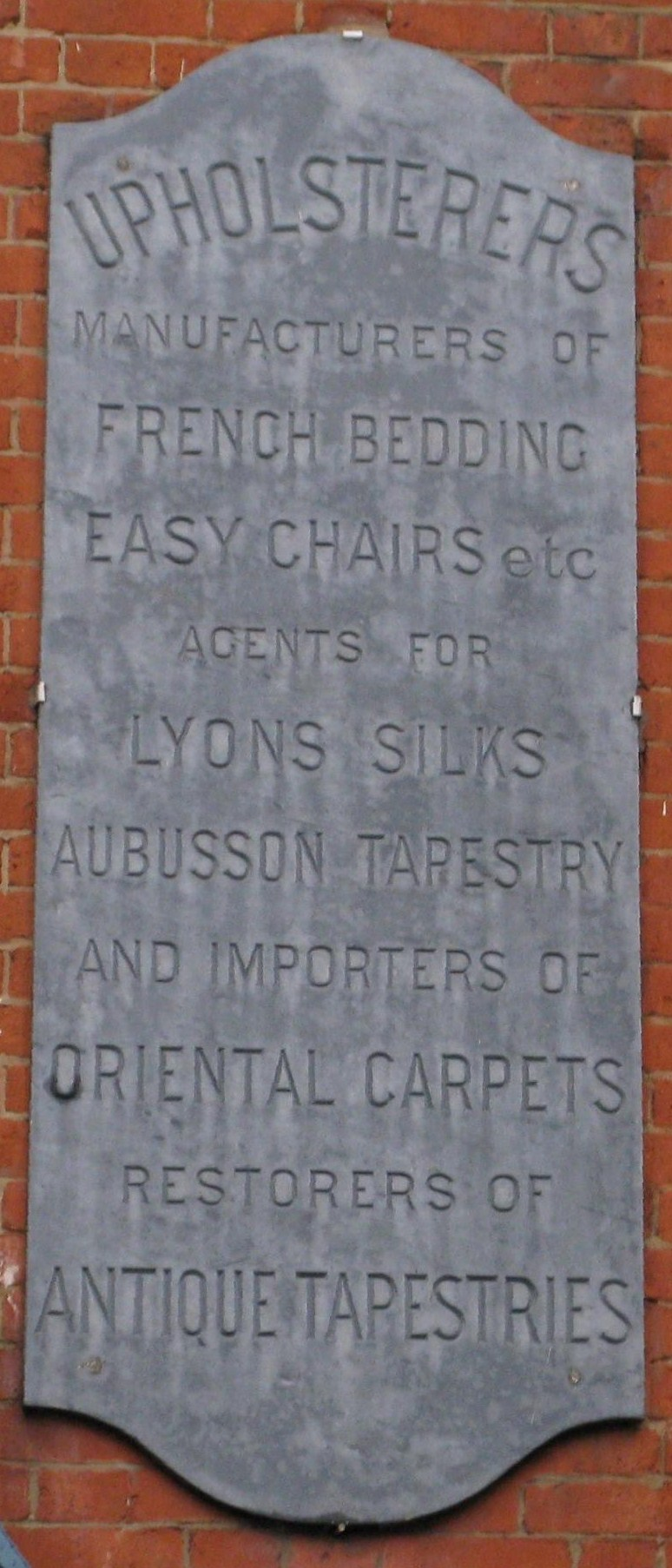 Joubert's sign at the Pheasantry